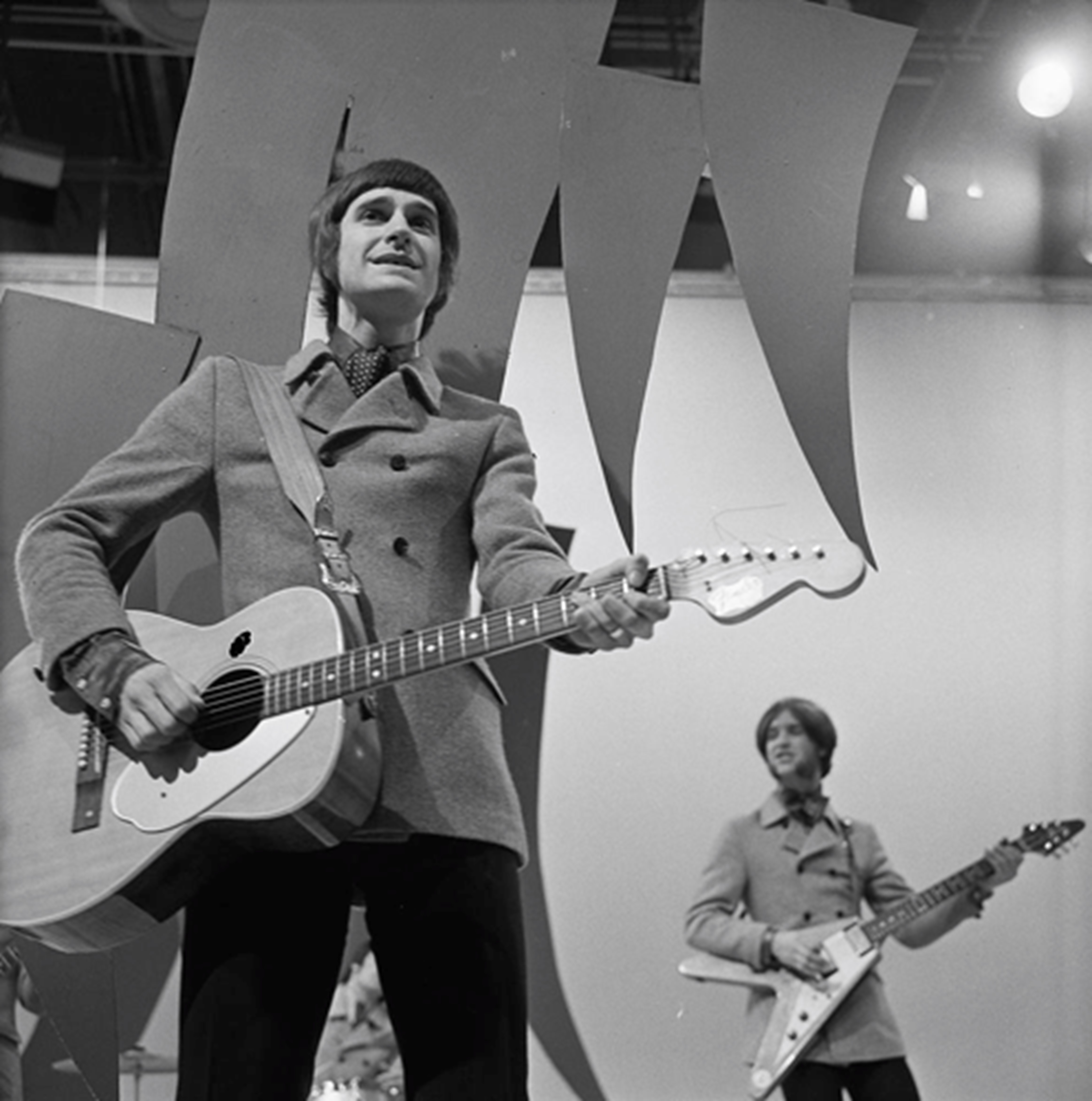 The Kinks performing This is where I belong and Mr. Pleasant. Dutch TV programme Fanclub (29 April 1967)